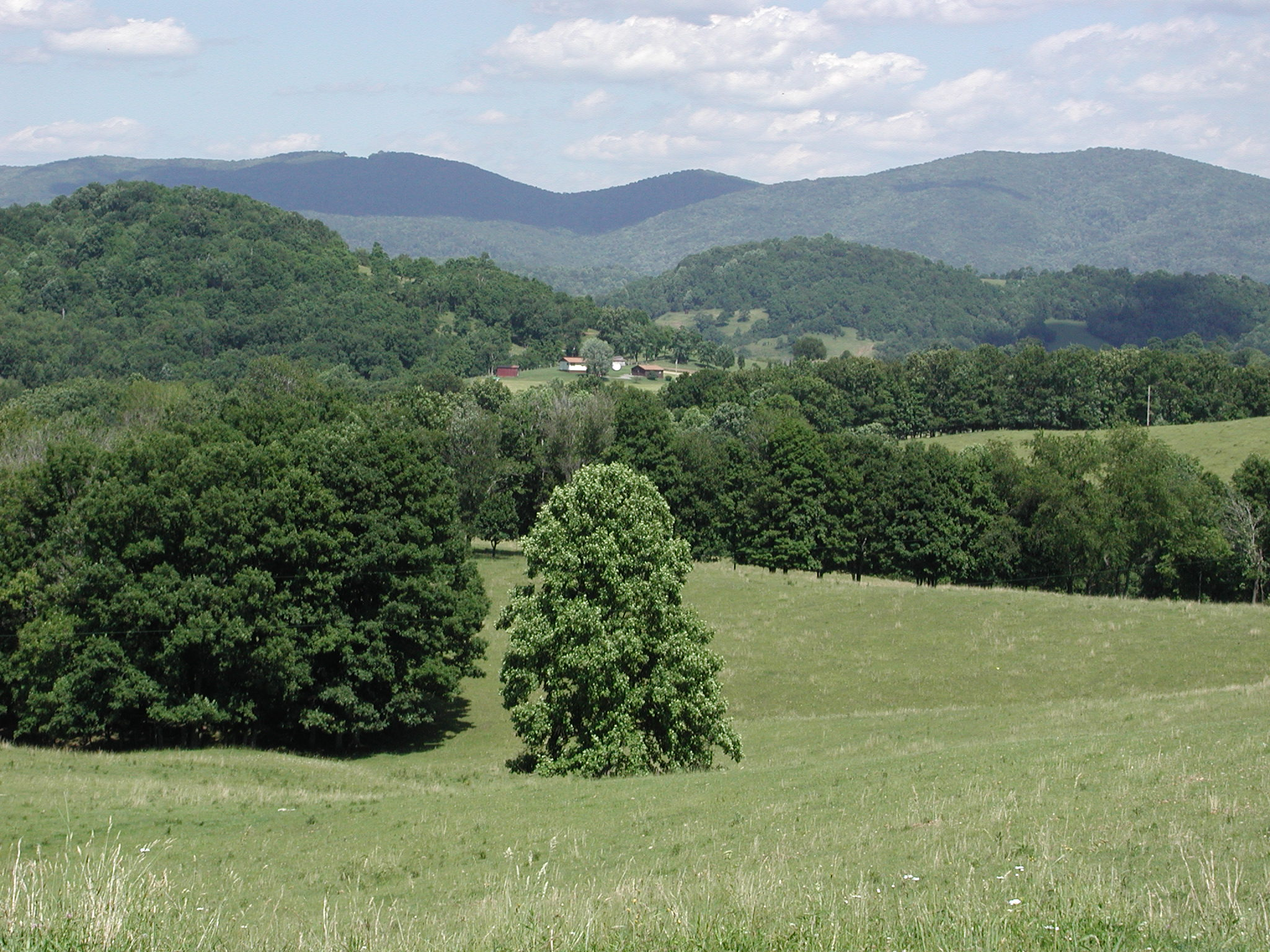 Laurel Mountain, West Virginia (Photo taken near Tacy, West Virginia)